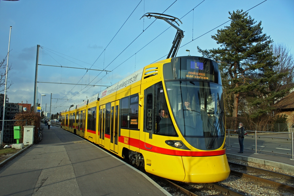 BLT-Tango-Prototyp at Batteriestrasse